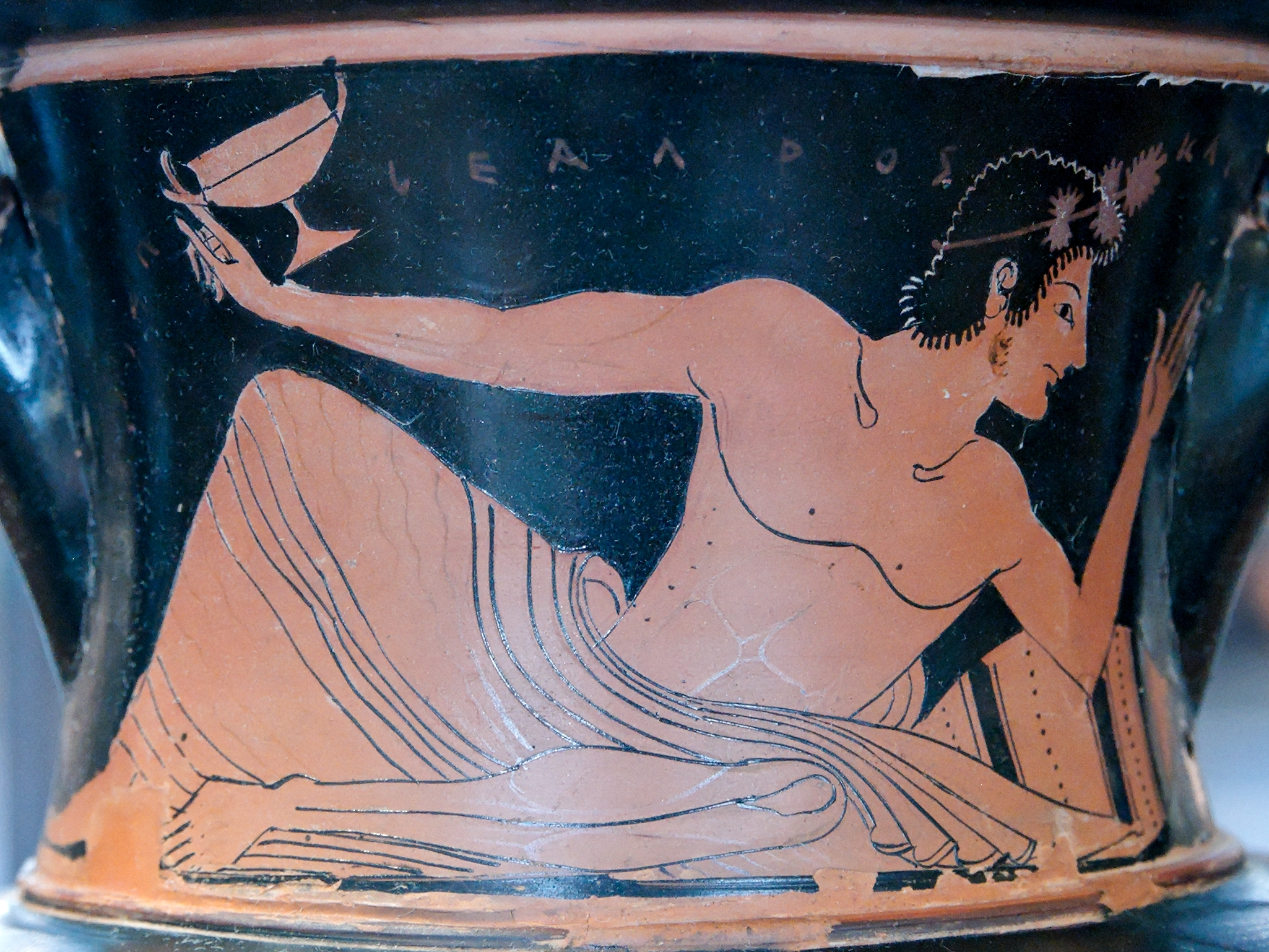 Banqueter playing the kottabos game; kalos inscription in the name of Leagros. Side A of the neck of an Attic red-figure neck-amphora, ca. 510 BC. From Vulci.